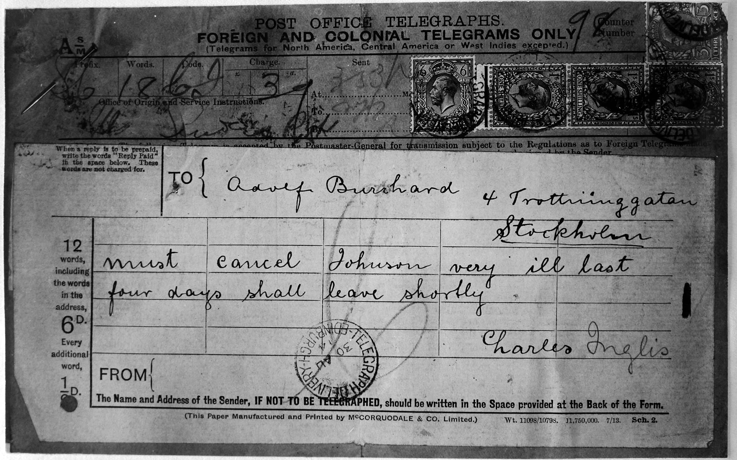 Telegram sent to Adolf Burchard by Carl Hans Lody